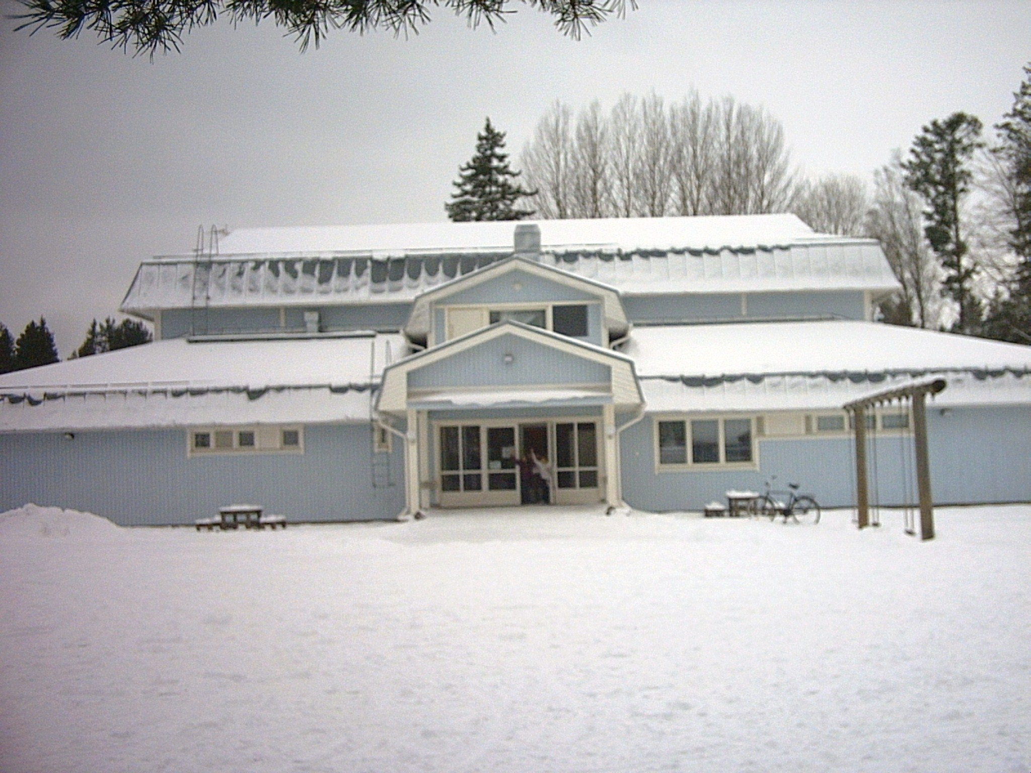 Ruotsala Hall in Kauhava, Finland